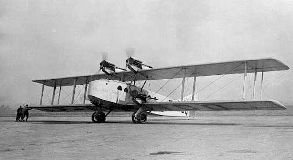 Blériot 155 airline F-AICQ Clement Ader. This aircraft was in service from May - October 1926. It crashed on 2 October 1926 as the result of the first in-flight fire on a civil airliner with the loss of 7 lives.